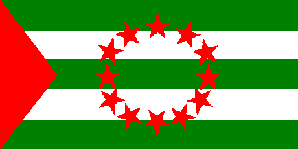 Historical flag of Manabi